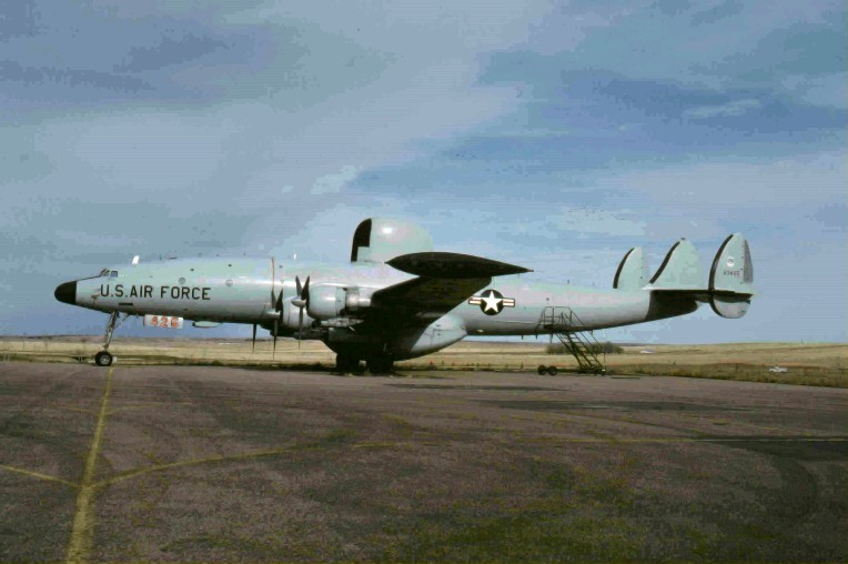 A U.S. Air Force Lockheed EC-121T (s/n 52-3425) at the Peterson Air and Space Museum, Peterson Air Force Base, Colorado (USA), on 19 November 1979. Before its retirement in 1978 it had been last operated by the USAF Reserve 79th Airborne Warning and Control Squadron at Homestead Air Force Base, Florida (USA).